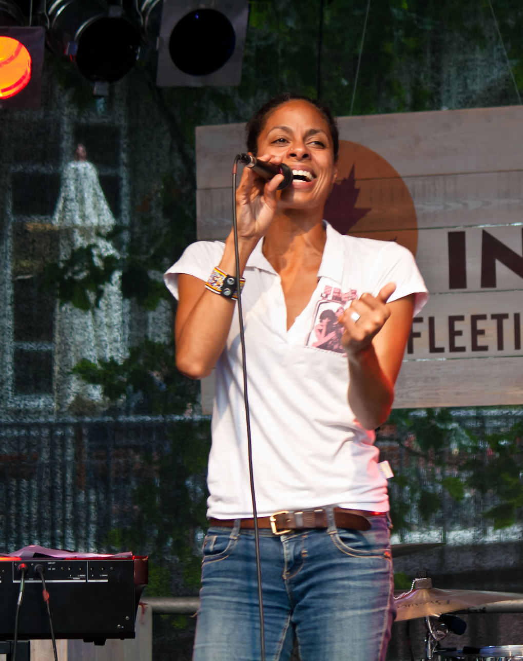 Astrid North in Hamburg Indian Summer Fleetinsel 15.09.2012